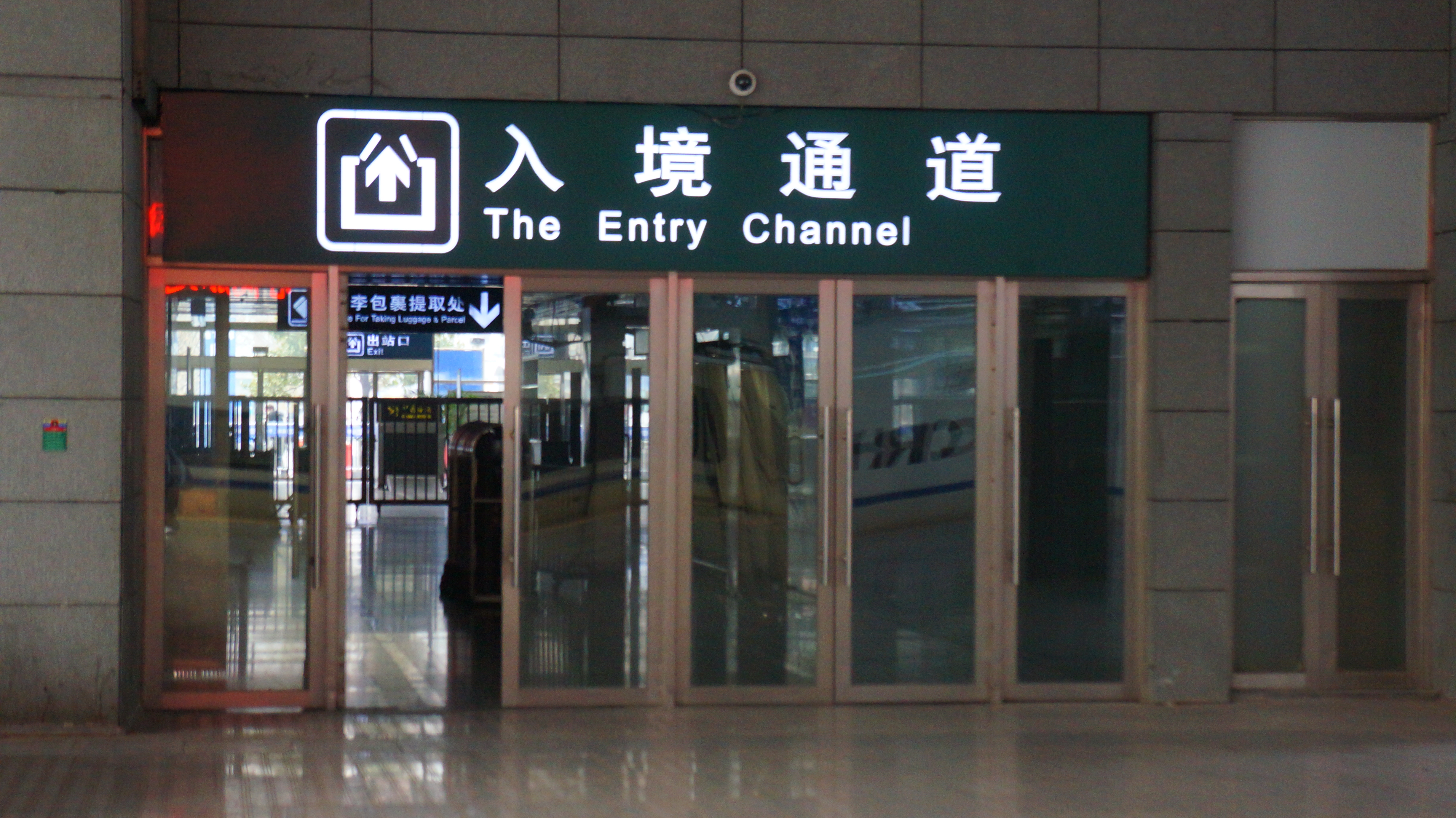 Immigration Checkpoint Entry for Shanghai-Kowloon Through Train in Shanghai Railway Station